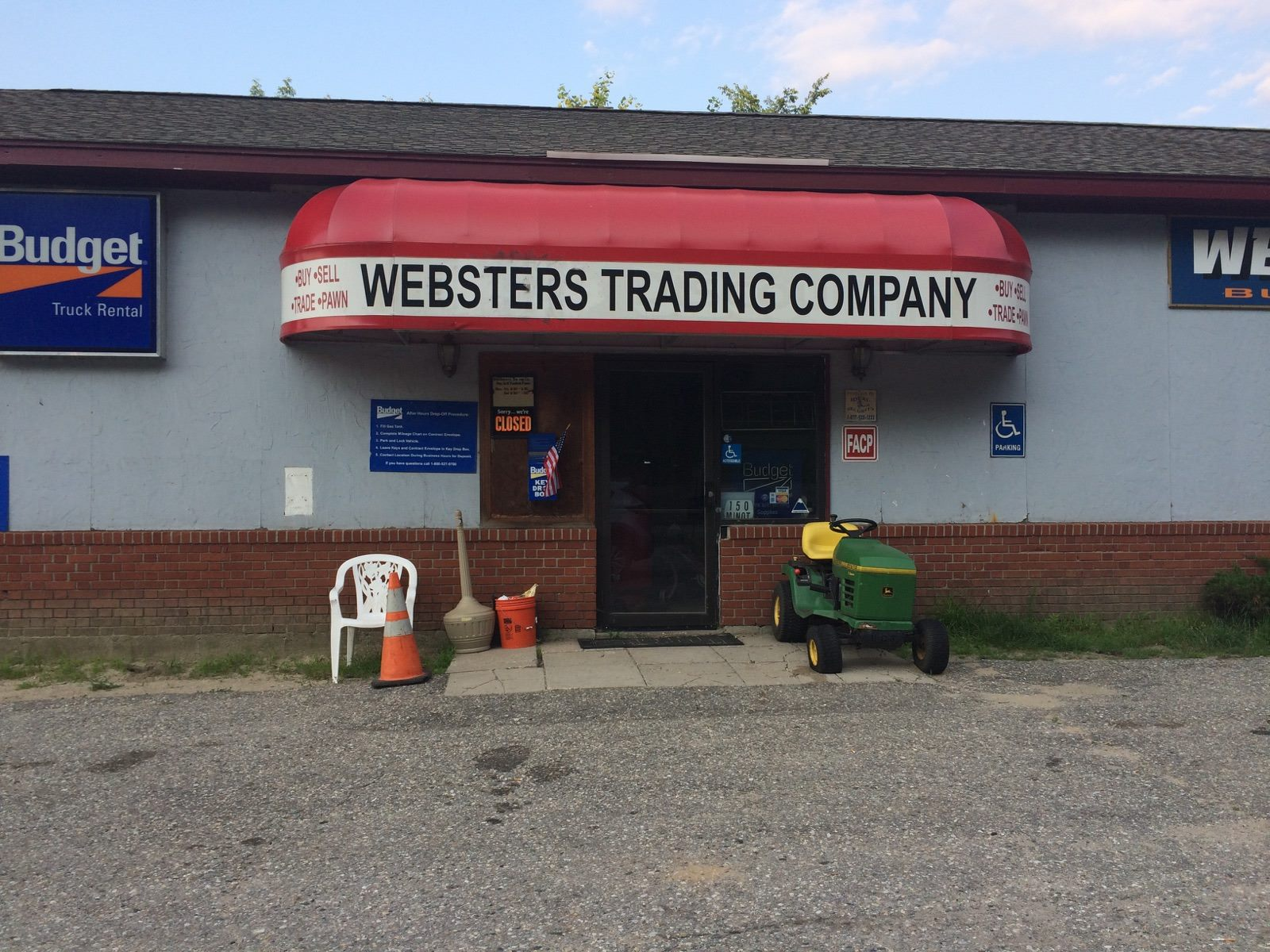 The frontage of Webster's Trading Company in Auburn, Maine.